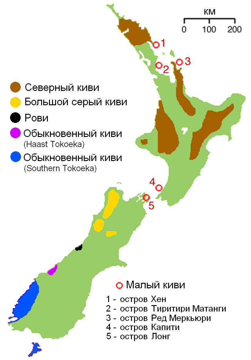 Russian Map of Kiwi Areal Apteryx mantelli (Brown) Apteryx haastii (Yellow) Apteryx rowi (Black) Apteryx mantelli (Fuchsia) Apteryx australis australis (Blue) Apteryx owenii (Red circle)